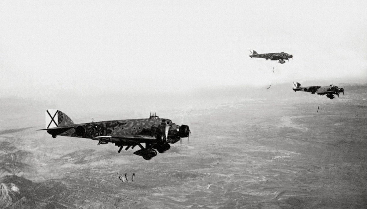 Some Savoia Marchettis SM.81 during a bombing mission in 1936